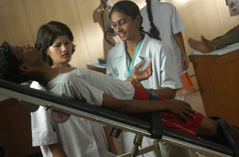 Students of Physiotherapy at Vels University